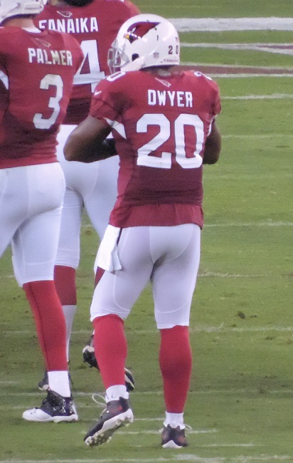 Jonathan Dwyer playing for the Arizona Cardinals in a game against the San Diego Chargers